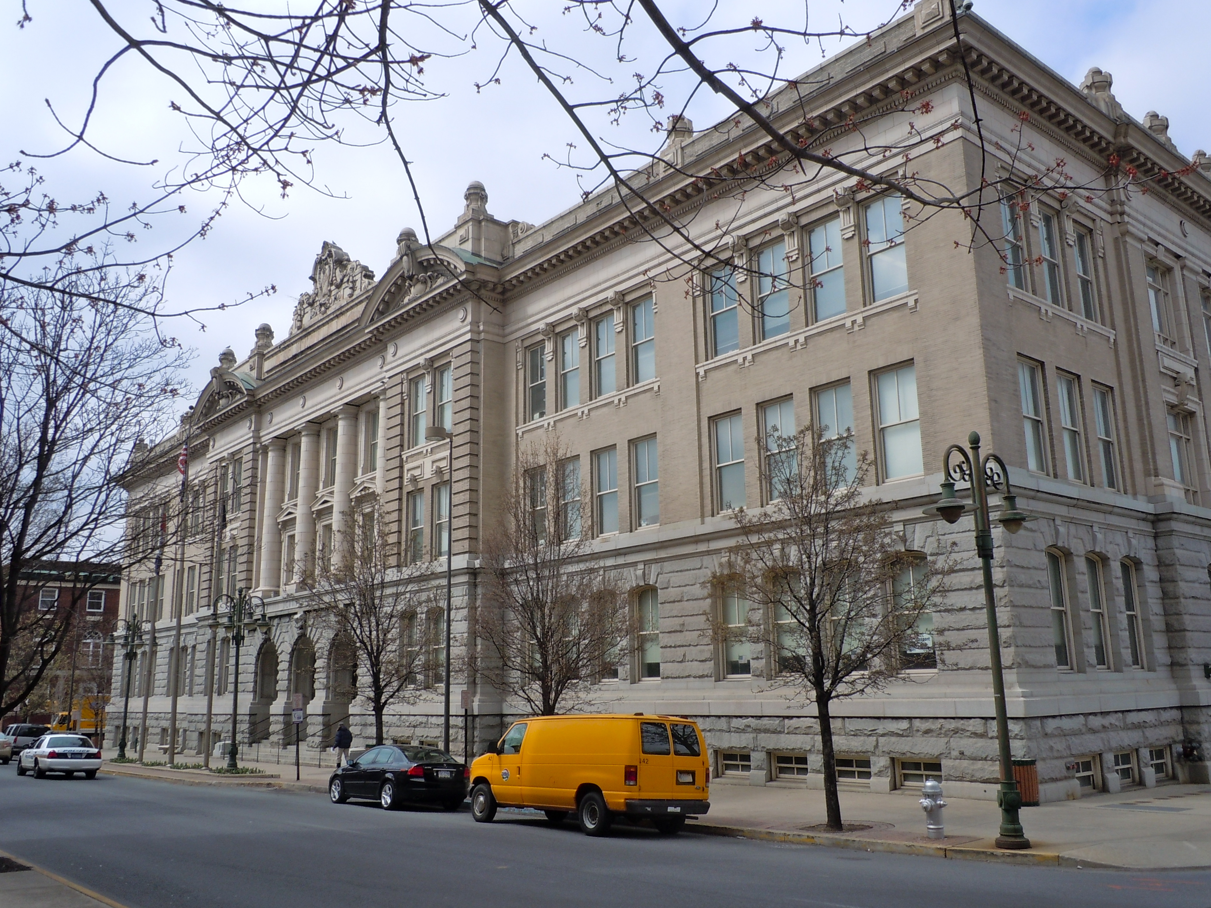 Reading City Hall on the NRHP since April 13, 1982. At 8th and Washington Streets, Reading, Pennsylvania